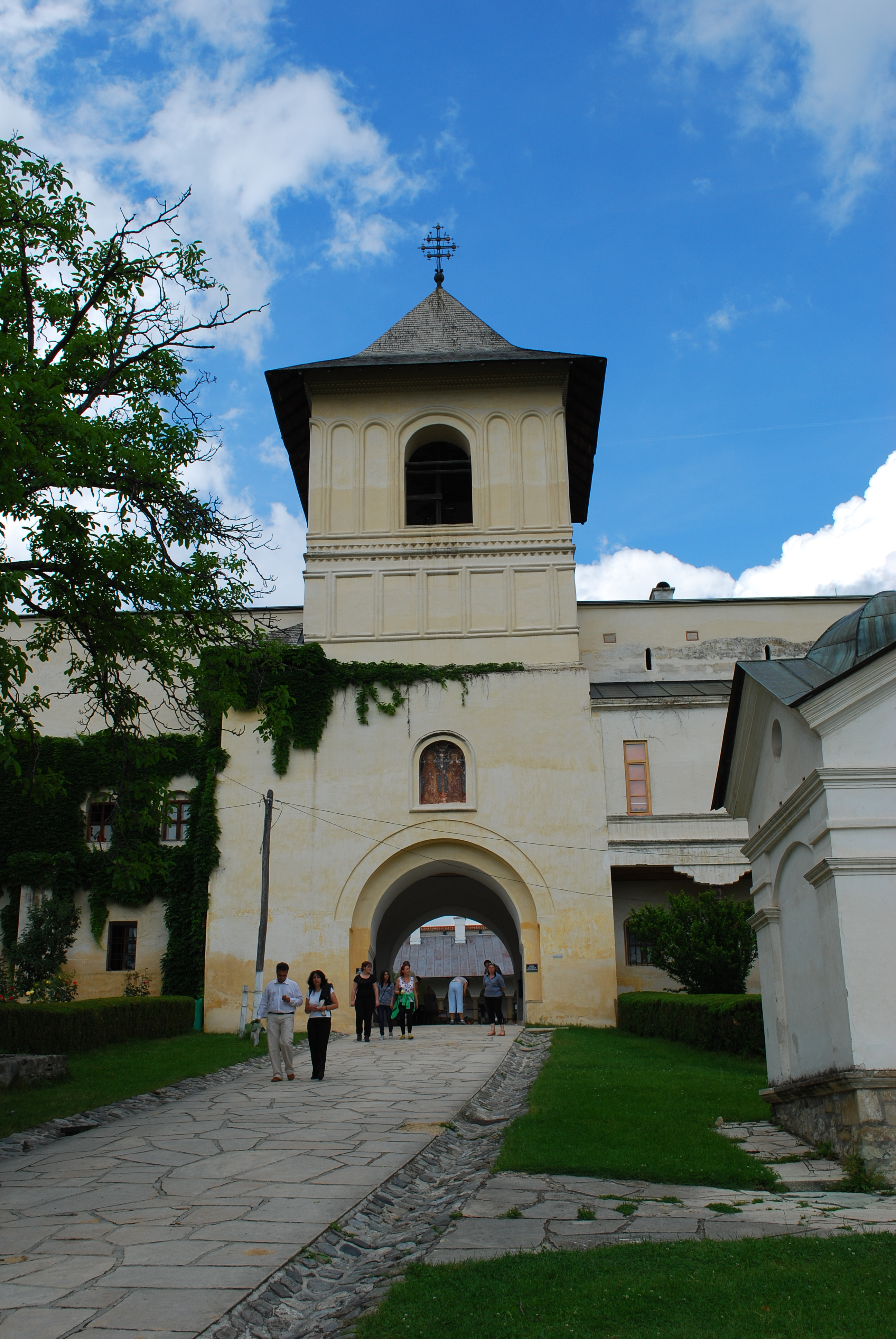 Belfry of the Horezu monastery, Vâlcea County, RomaniaRomână: Turn clopotniţă la mănăstirea Horezu, judeţul Vâlcea, România 05